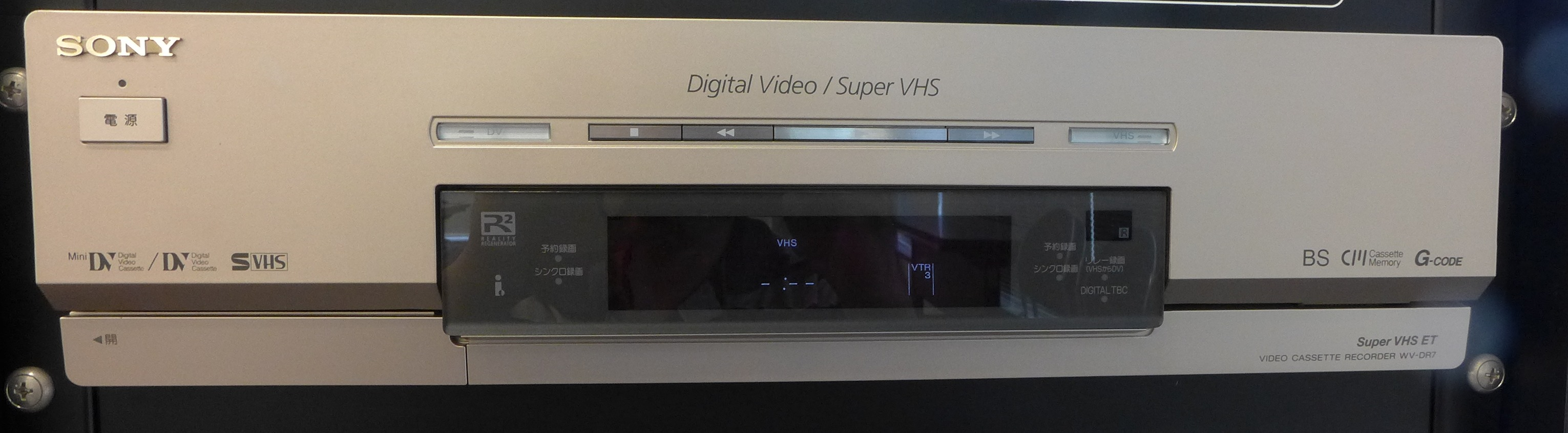 1999/08/23 Press Release